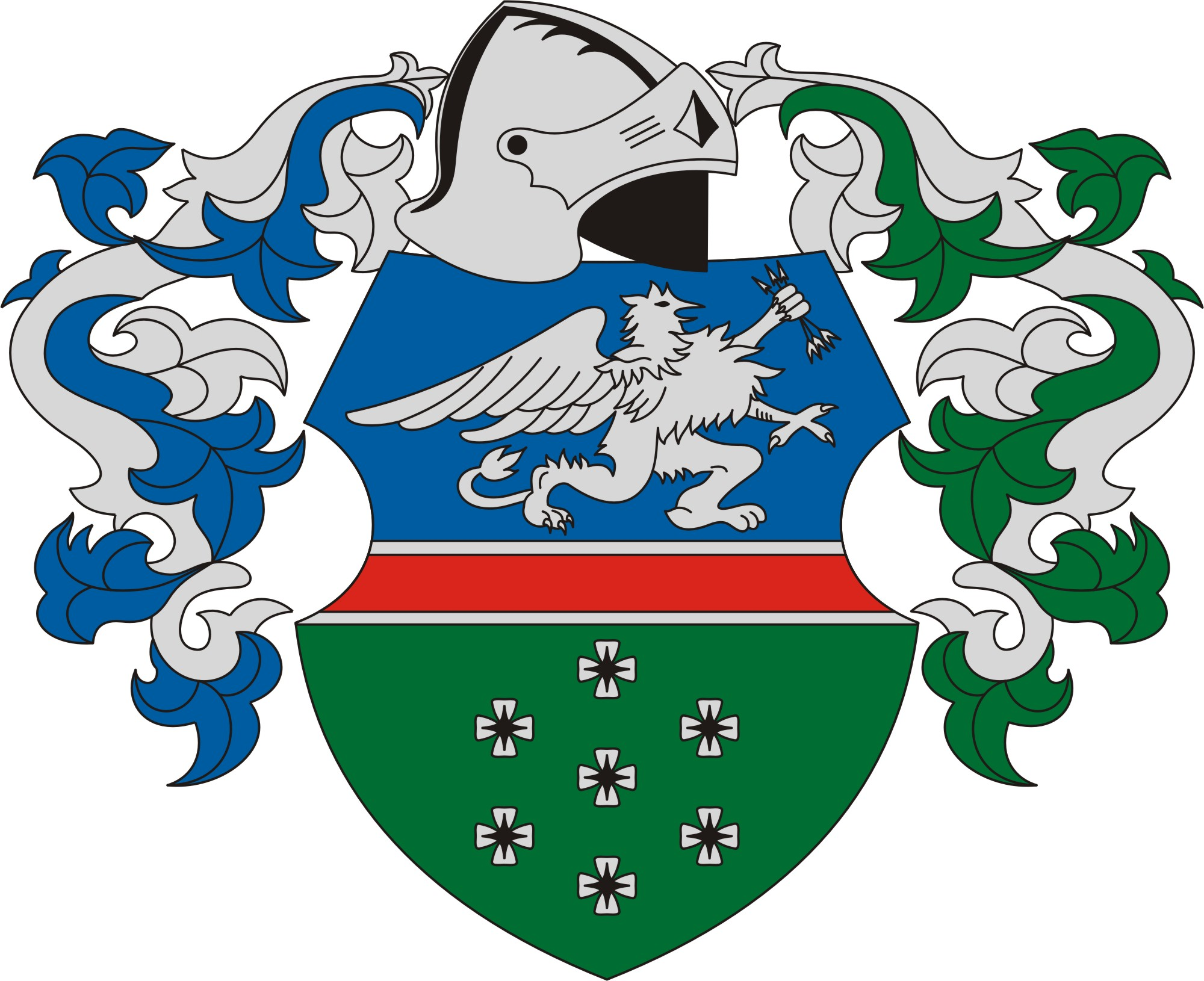 Coat of arms of Kisszállás, Hungary